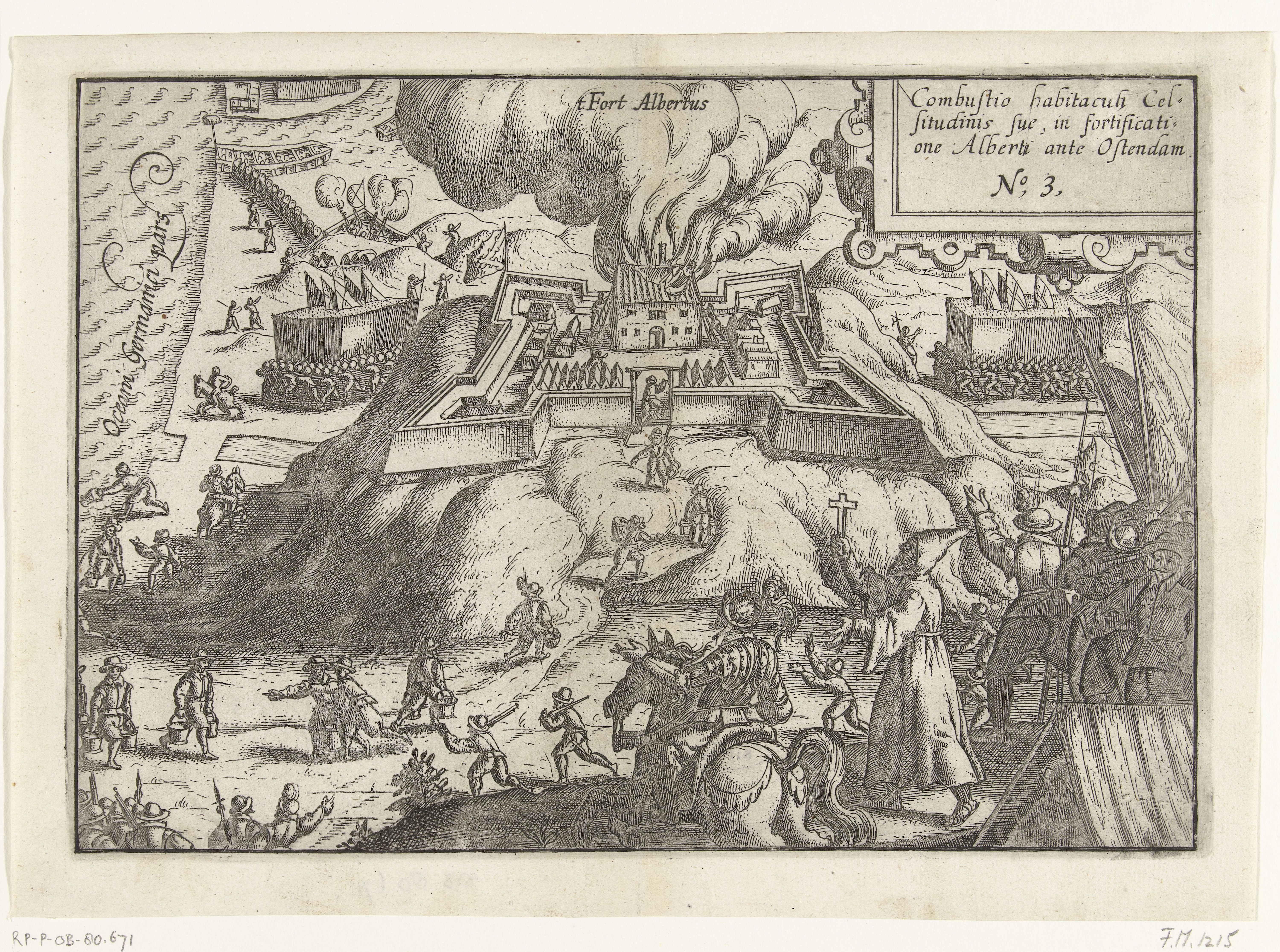 Siege of Ostend - fire in fort Albertus, 13 November 1601, by Baptista van Doetechum (possibily)